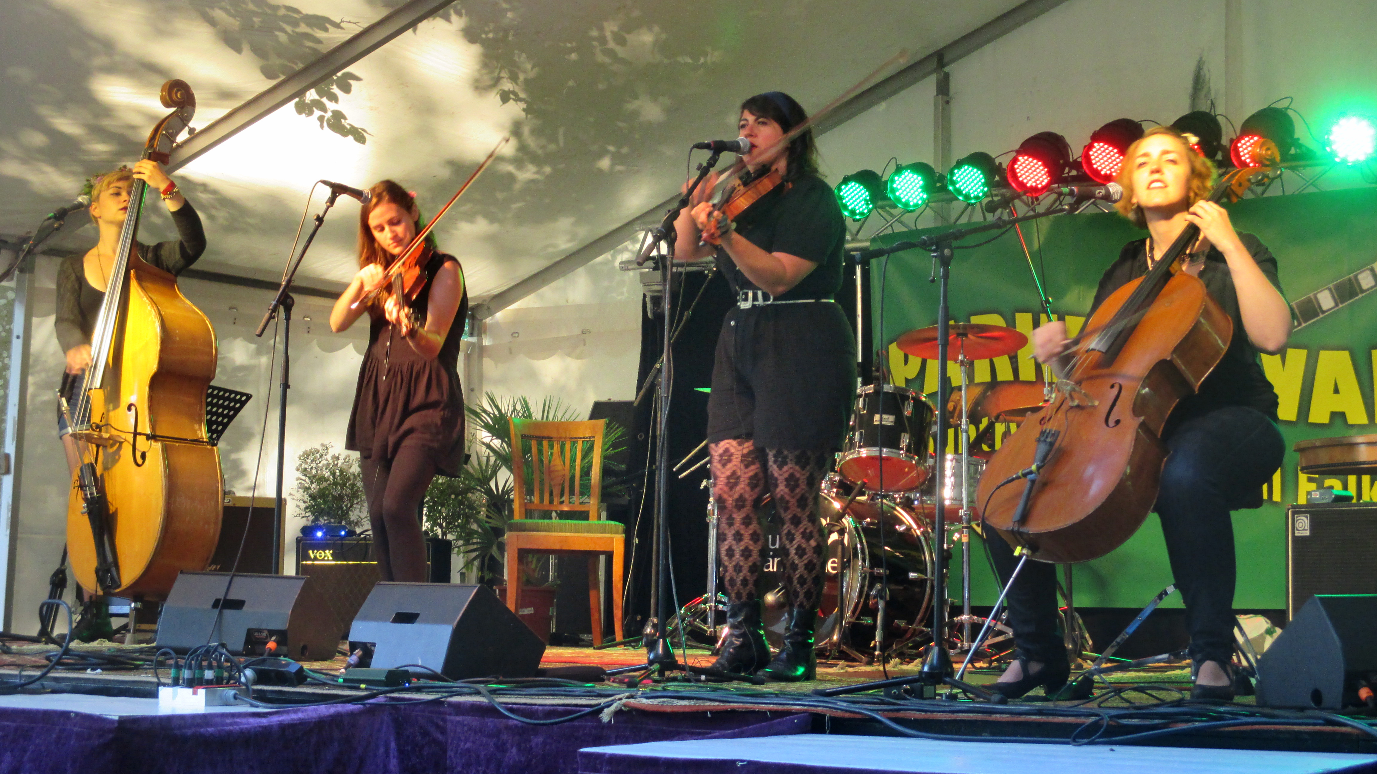 The American quartet Laura Cortese & The Dance Cards playing at Parkfestivalen 2015 in Mössebergsparken, Falköping, Västra Götaland County, Sweden. Seen from the left: Natalie Bohrn (contabass, vocals) from Winnipeg (Manitoba), Jenna Moynihan (fiddle, vocals) from Lakewood (New York), Laura Cortese (fiddle, vocals) from San Francisco (California), and Valerie Thompson (cello, vocals) from Kansas City (Missouri).